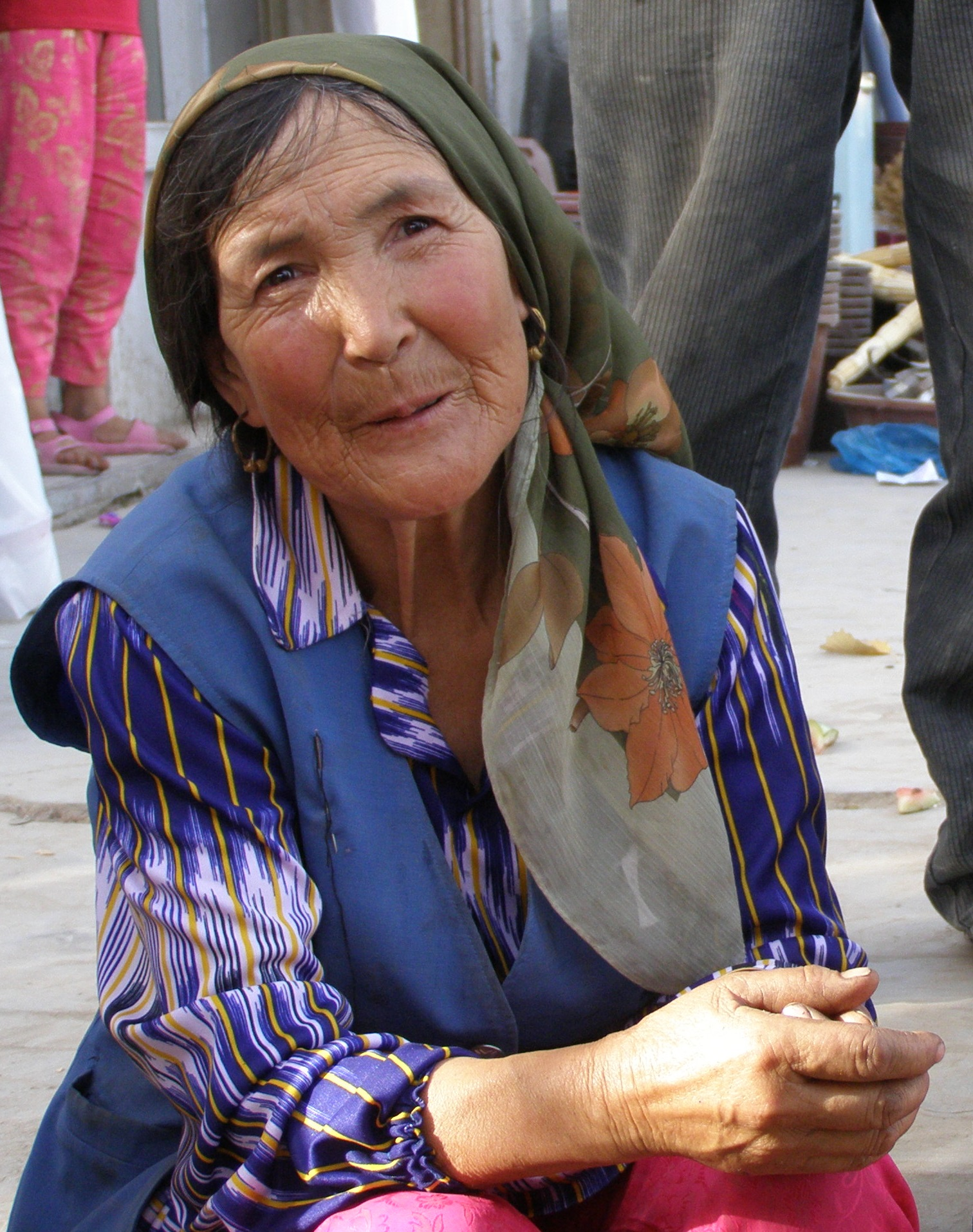 Uyghur woman from Kizilsu Merkezi, Kizilsu Kirghiz Autonomous Prefecture of Xinjiang, China.